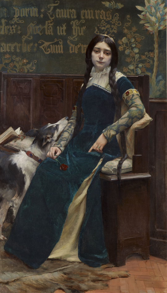 Griselda, painting by Marguerite Godin, 1894